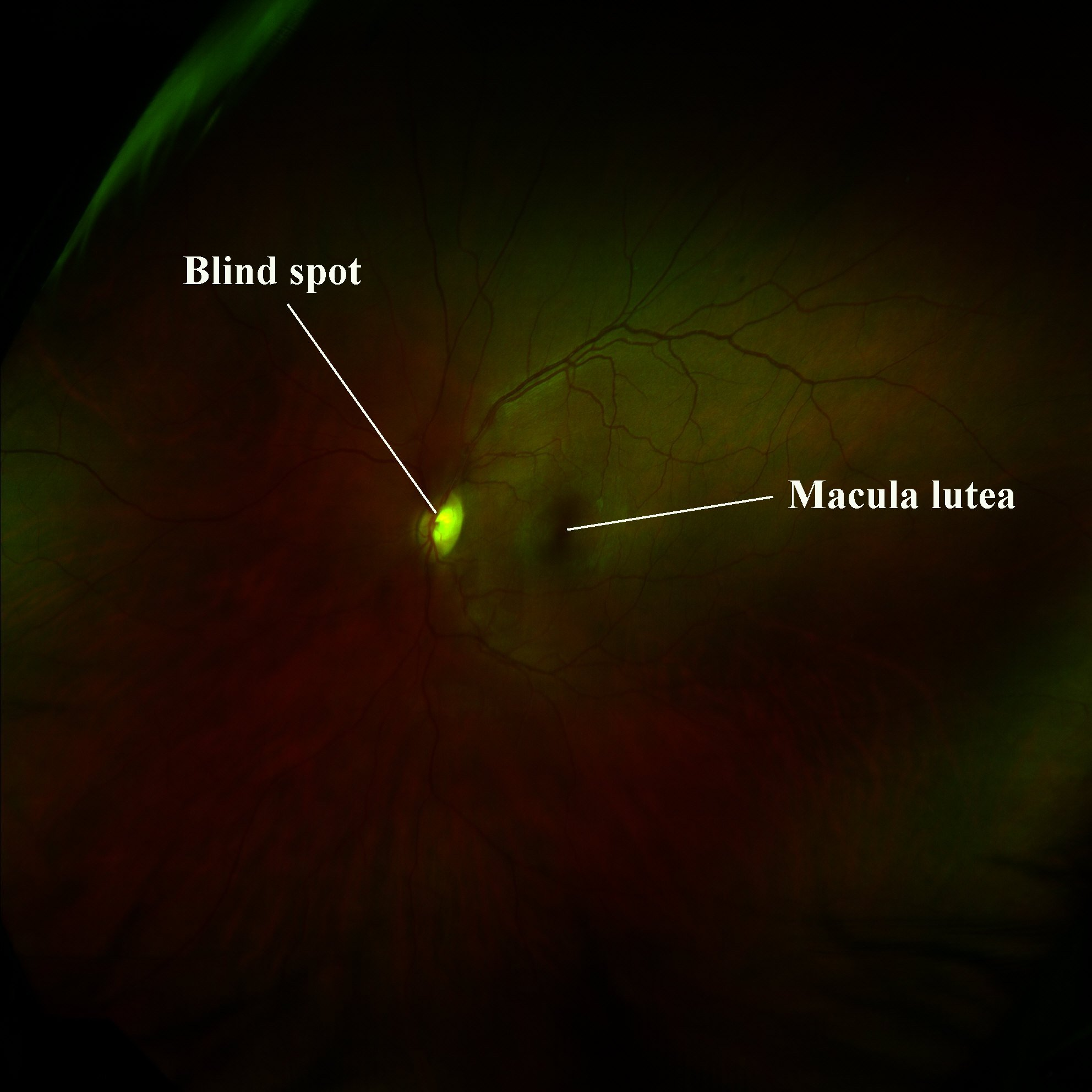 Instead of getting those crazy eye drops to dilate your eyes so the doctor can look at your retina, they just take a high-resolution digital picture. Much faster and easier. And they keep them on record so they can compare photos from year to year and better diagnose potential problems. The bright spot in the middle is the optic nerve (the blind spot); the darker spot next to the optic nerve is the macula, a small crater in the retina with a higher density of rods and cones, making it the best seeing portion of the eye.